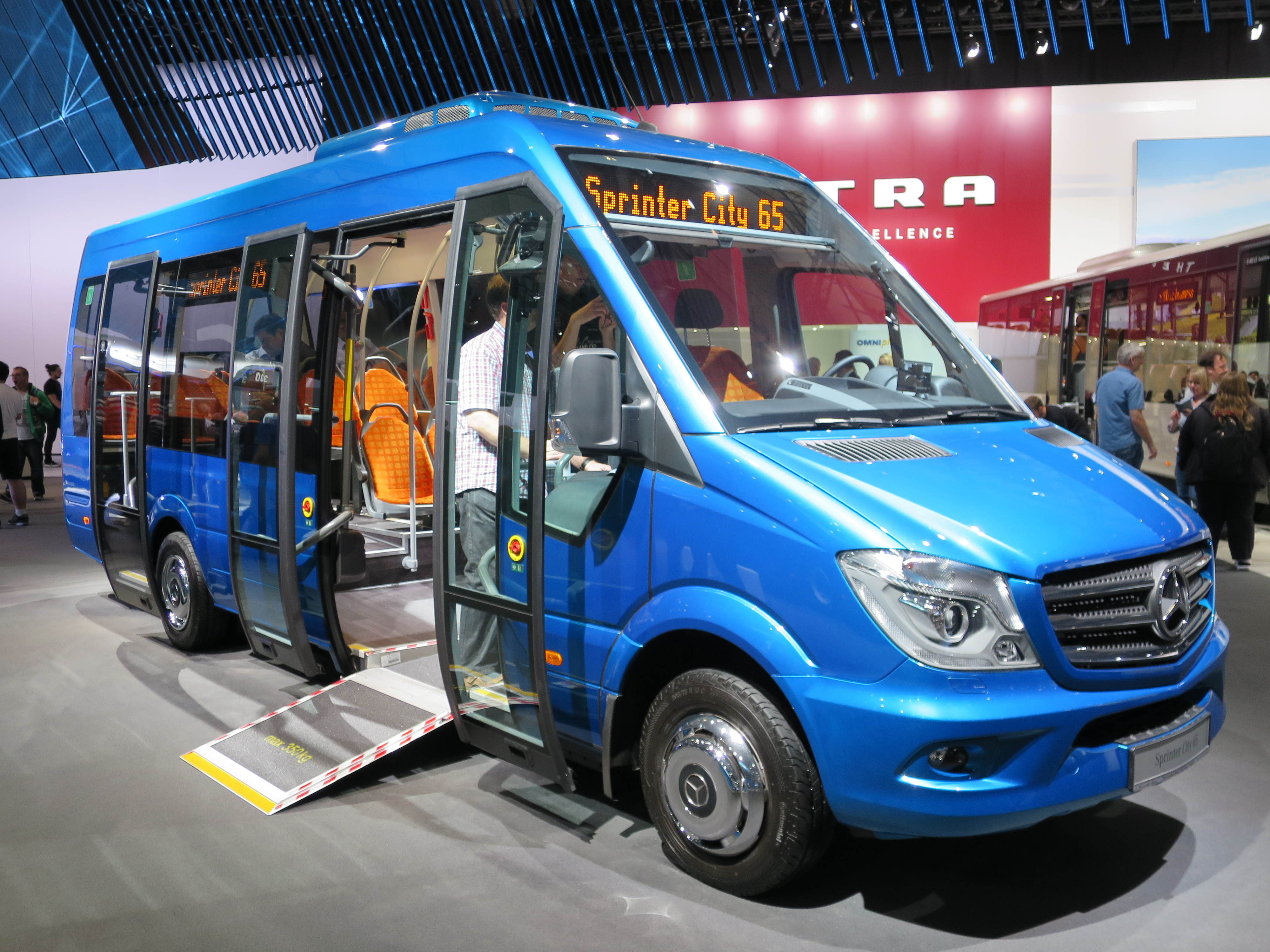 The making of this document was supported by Wikimedia Polska Association, within Wikigrant no. WG 2016-35. Mercedes-Benz Sprinter Low Entry